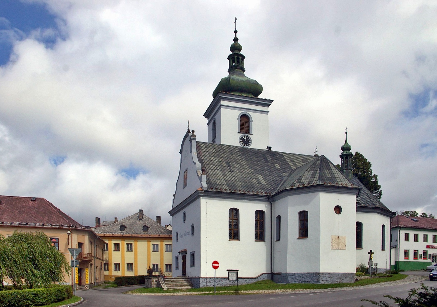 St Catherine church in Volary, Prachatice District, Czech Republic.